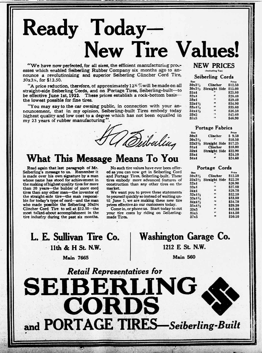 Washington DC area newspaper ad for Seiberling Tires.